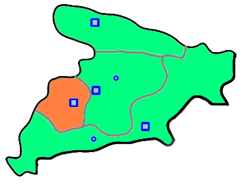 Nazarabad county of the Tehran Province in Iran. Taken from: and edited by Mani Parsa.